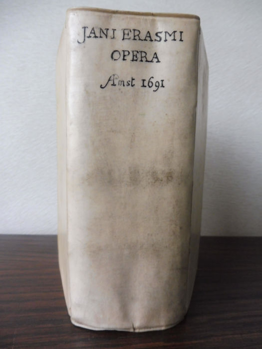 Janus Erasmius (1604-1658): Posthumously published works, 1691